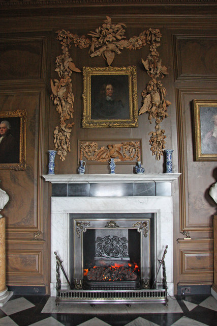 The Marble Hall. Fireplace in the Marble Hall at Belton House, with a 1649 portrait of 'Old' Sir John Brownlow (Sir John Brownlow, 1st Baronet (c.1595-1679) of Belton) by Gerard Soest framed with overmantel carvings by Grinling Gibbons.